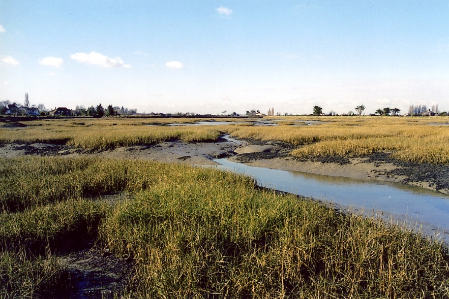 Salt-marsh East Chidham (Chichester Harbour, southern England), Salzwiese East Chidham (Chichester Harbour, südliches England)